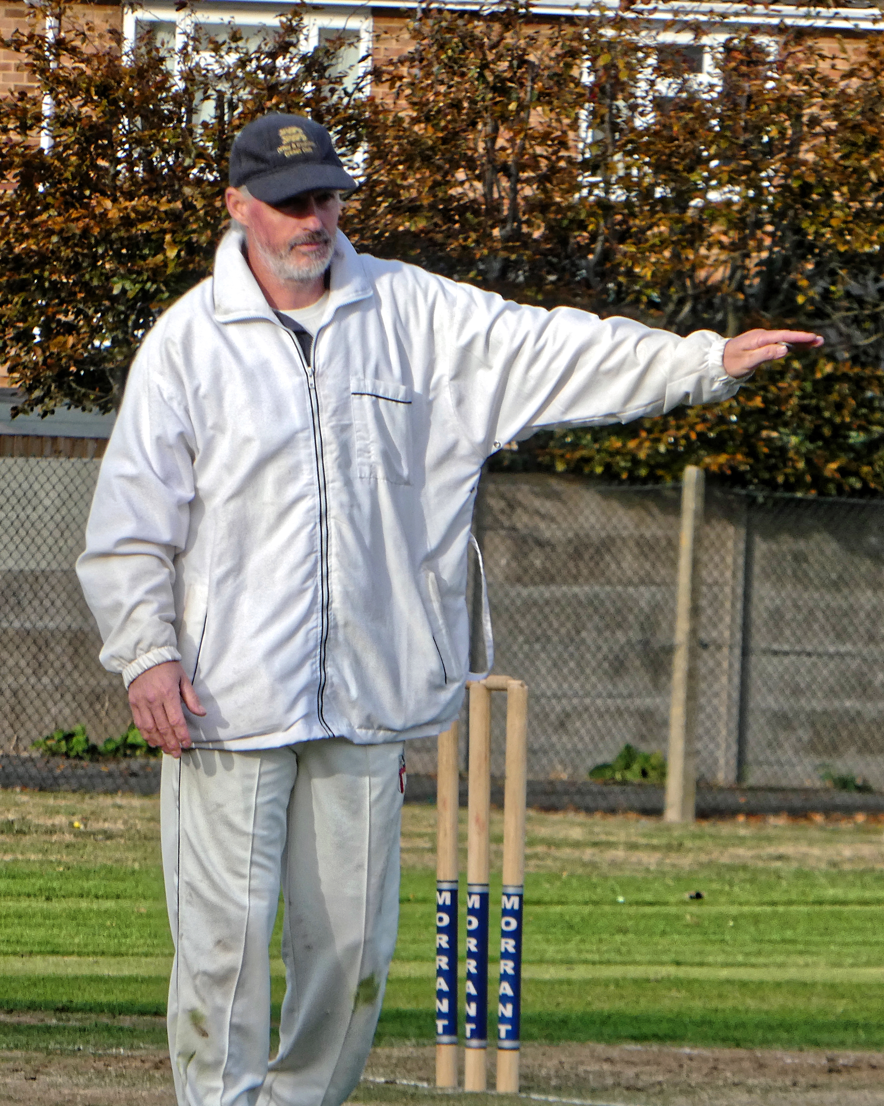 A Sunday public friendly cricket match between Abridge Cricket Club Sunday 1st XI and the North London Hadley Wood Green Sports Cricket Club Friendly XI (batting), at Abridge, Essex, England. Umpire indicating four runs through the ball reaching the boundary, but with contact with the ground, without being picked up by fielders.Mobile device view: Wikimedia (as at 2018) makes it difficult to immediately view photo groups related to this image. To see its most relevant allied photos, click on Abridge Cricket Club, Hadley Wood Green Sports Cricket Club, and this uploader's Cricket photos. You can add a beta click-through 'categories' button to the very bottom of photo-pages you view by going to settings... three-bar icon top left.Desktop view: Wikimedia (as at 2018) makes it difficult to immediately view the helpful category links where you can find images related to this one in a variety of ways; for these go to the very bottom of the page.This image is one of a series of date and/or subject allied consecutive photographs kept in progression or location by file name number and/or time marking.Camera: Panasonic Lumix DMC-TZ90Software: File lens-corrected, optimized, perhaps cropped, with DxO PhotoLab, and likely further optimized with Adobe Photoshop CS2.